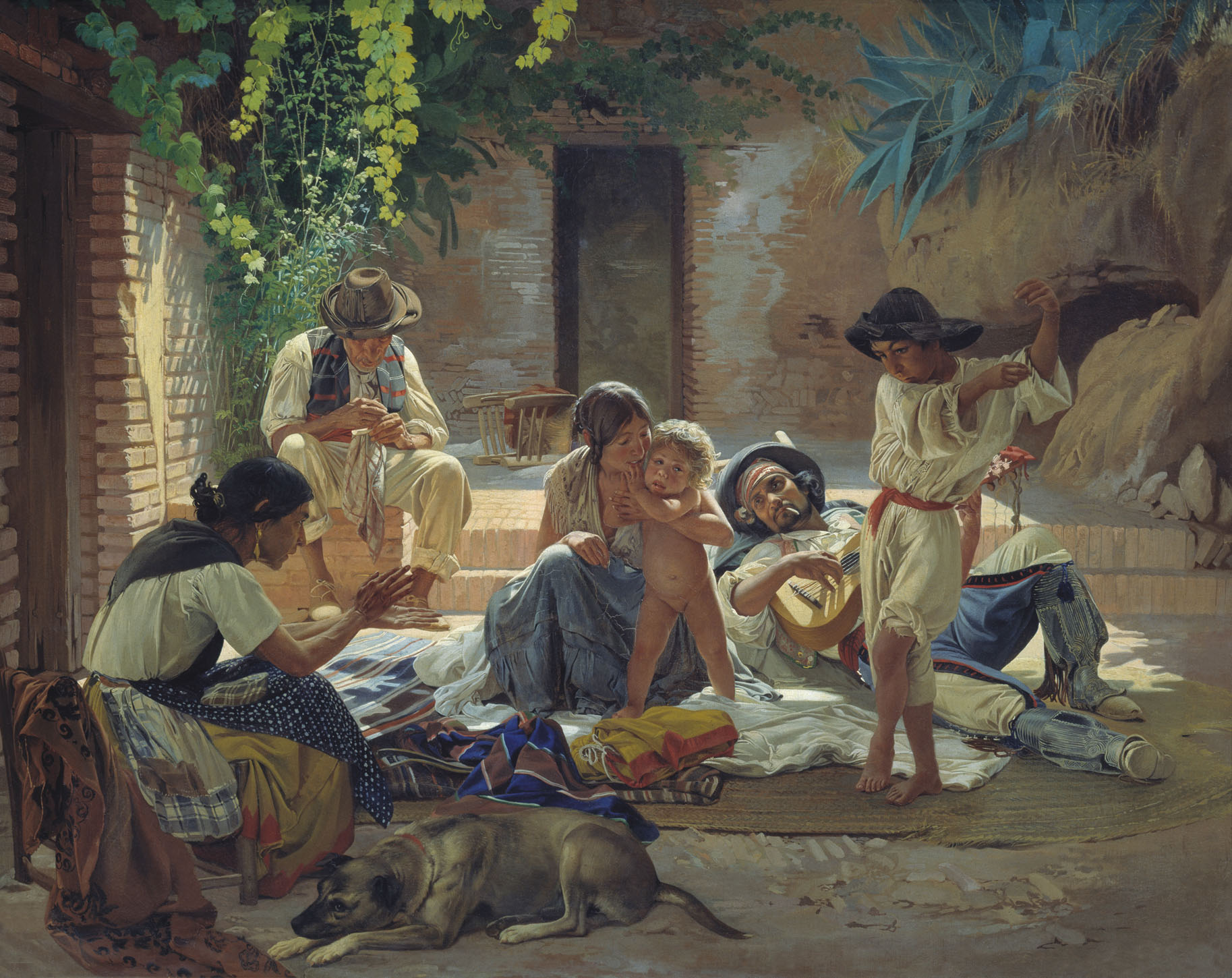 Spanish Romani people